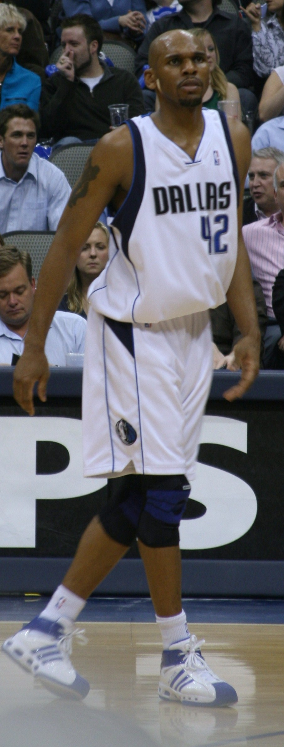 Jerry Stackhouse in 2008 with the Dallas Mavericks